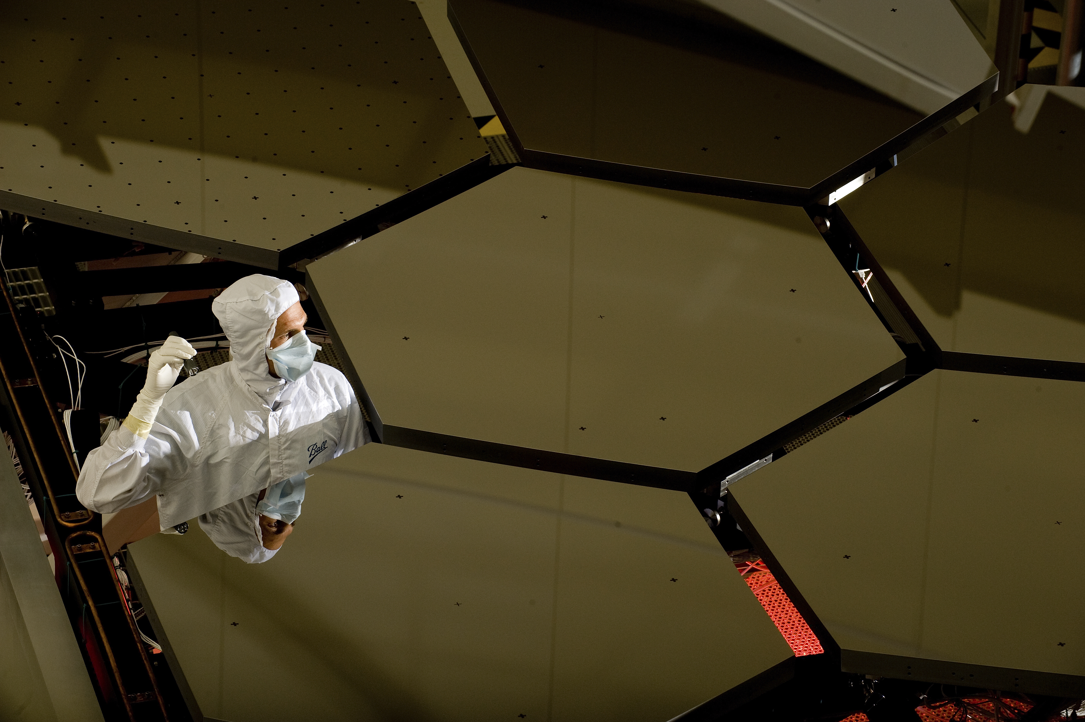 Six of the 18 Webb telescope mirrors are readied for shipment. All of the 18 mirror segments will be cryogenically tested twice in the Marshall Center's X-ray & Cryogenic Facility -- once with bare polished beryllium and then again after a thin coating of gold is applied to gain optimal reflectance in the infrared.